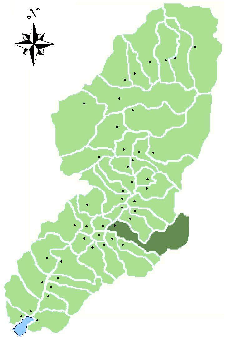 Map of the Comune di Breno, Valle Camonica